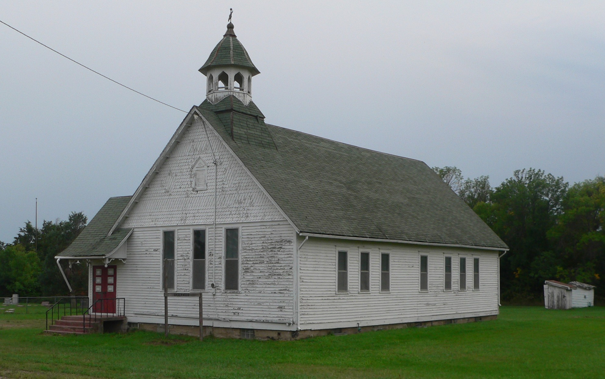 Underwood Church, located on 373 Ave. south of 242 St. in rural Aurora County, South Dakota; seen from the northeast.